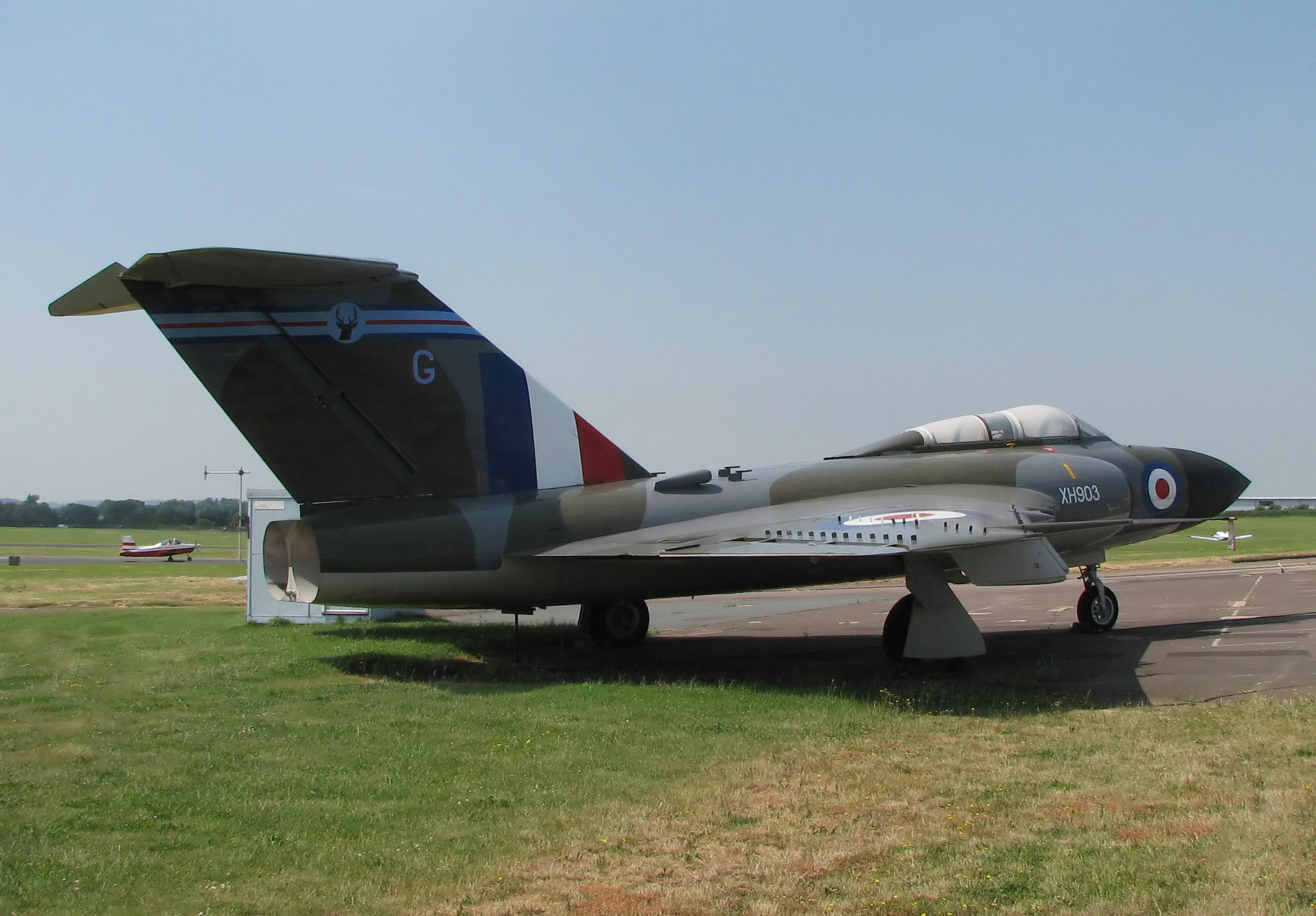 Gloster Javelin FAW.9 (XH903) at Gloucestershire Airport, Cheltenham, England. The aircraft was delivered to the RAF in 1959 and retired from service in 1965. It now forms a gate guardian at the airport. Photographed by Adrian Pingstone in June 2006 and placed in the public domain.